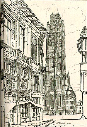 The Cathedral Spire, Rouen. Pencil on paper.